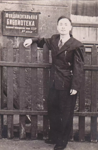 Hou Yunde (侯云德) in USSR, 1958